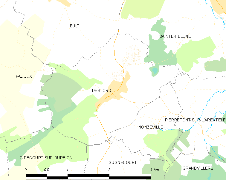 Map of French municipality Destord